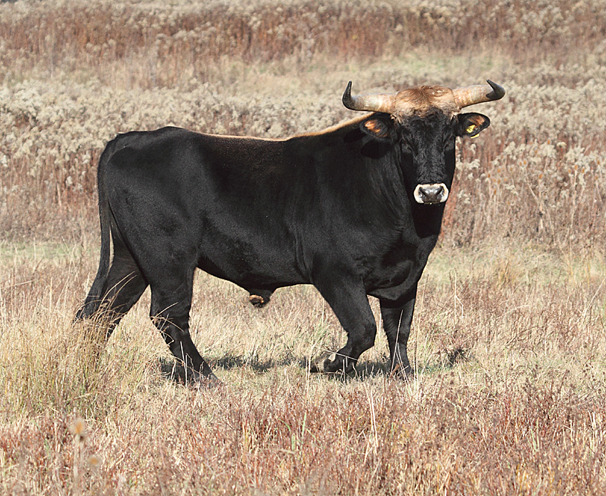 Bull Lamarck (50 % Sayaguesa, 25 % Heck, 25 % Chianina) from the Lippeaue, Germany. Part of the stock of the Arbeitsgemeinschaft Biologischer Umweltschutz.